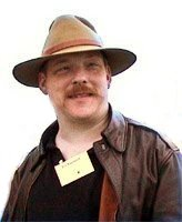 Eric S. Raymond